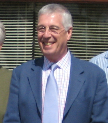 The English actor Jeffrey Holland at a Dad's Army celebration at Bressingham Steam Museum in Norfolk, May 2011.